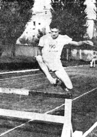 Peter Svet, Slovene athlete